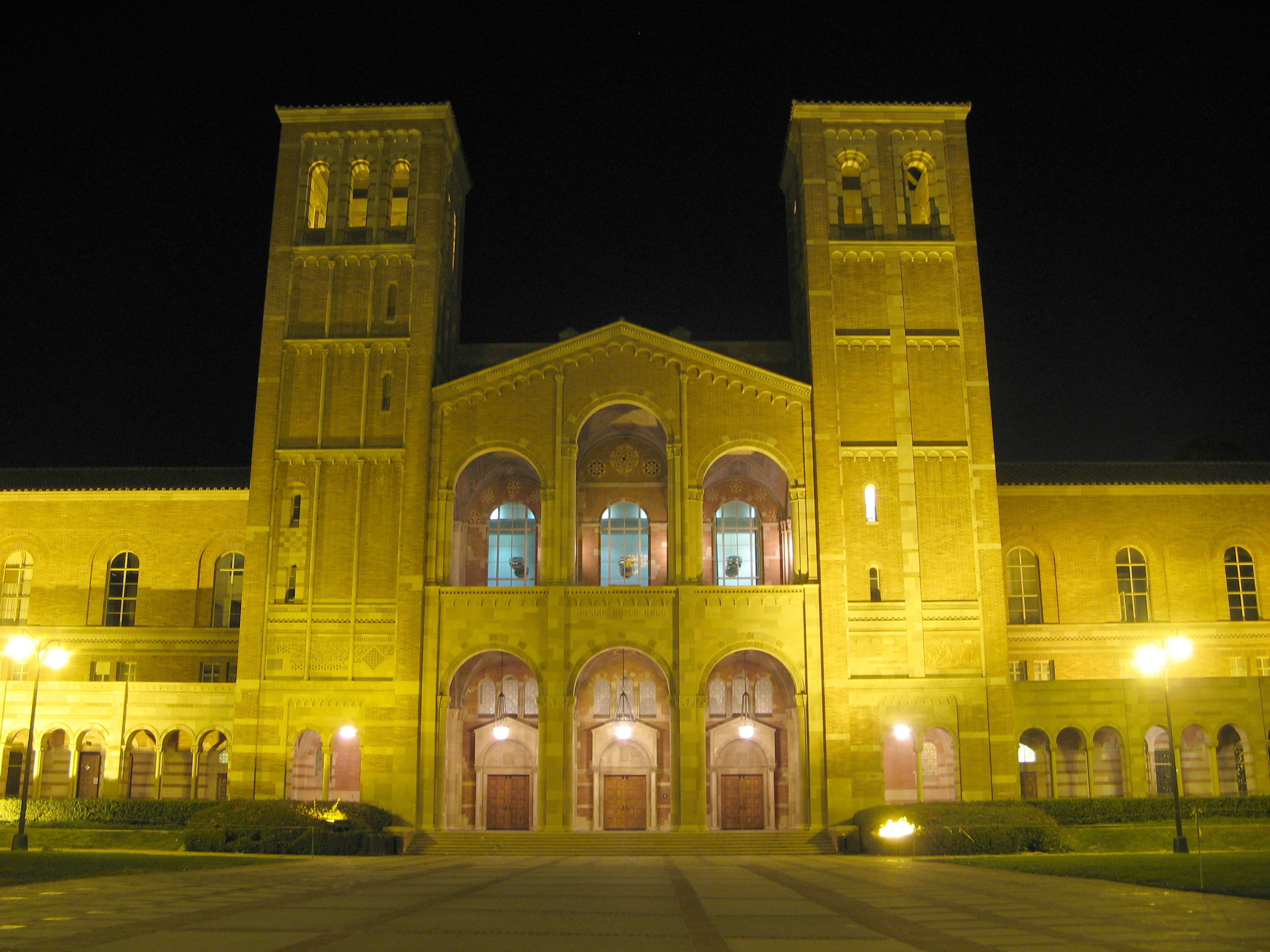 Royce Hall of UCLA at night. Photographed and uploaded by user:Geographer